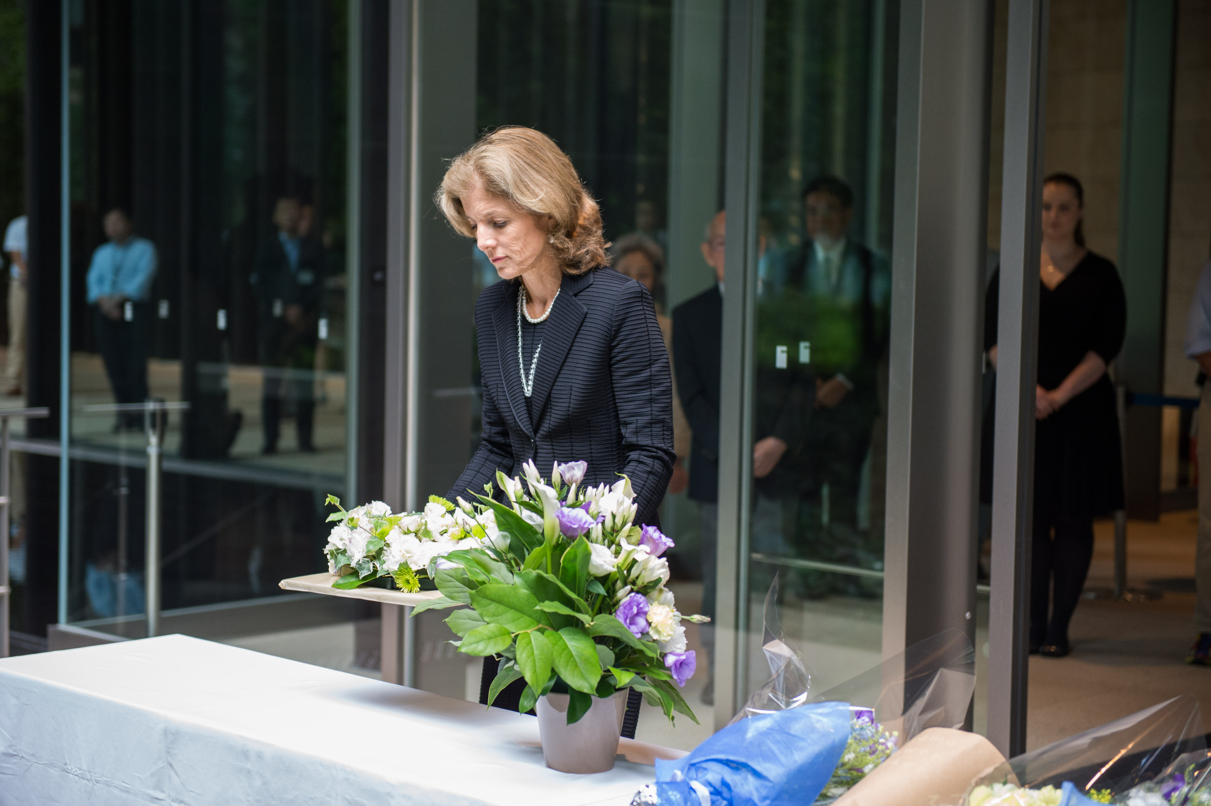 Caroline Kennedy, Ambassador to Japan, laid flowers for the victims of the September 11 attacks in front of the memorial at the Ōtemachi no Mori, Otemachi Tower in Chiyoda Ward, Tōkyō Metropolis on September 10, 2014.